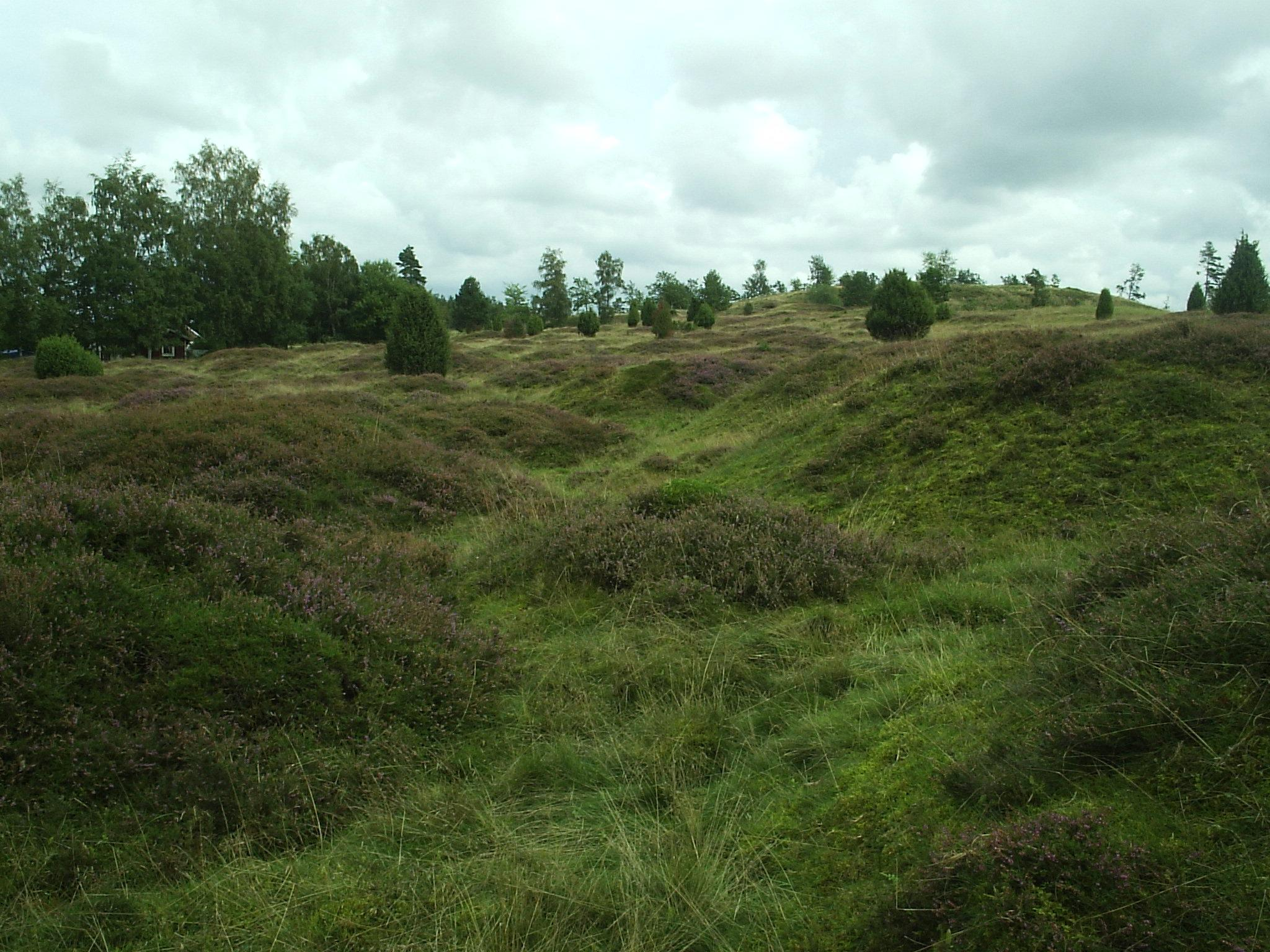 Photo by Harri Blomberg.